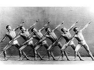 Group with poles